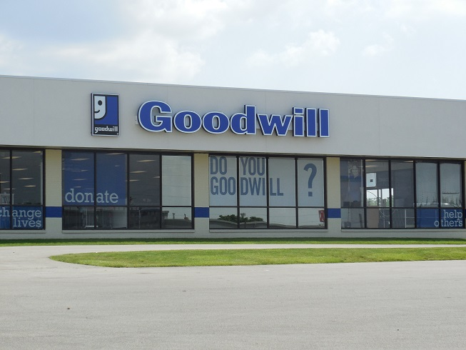 Goodwill in Normal Illinois 5